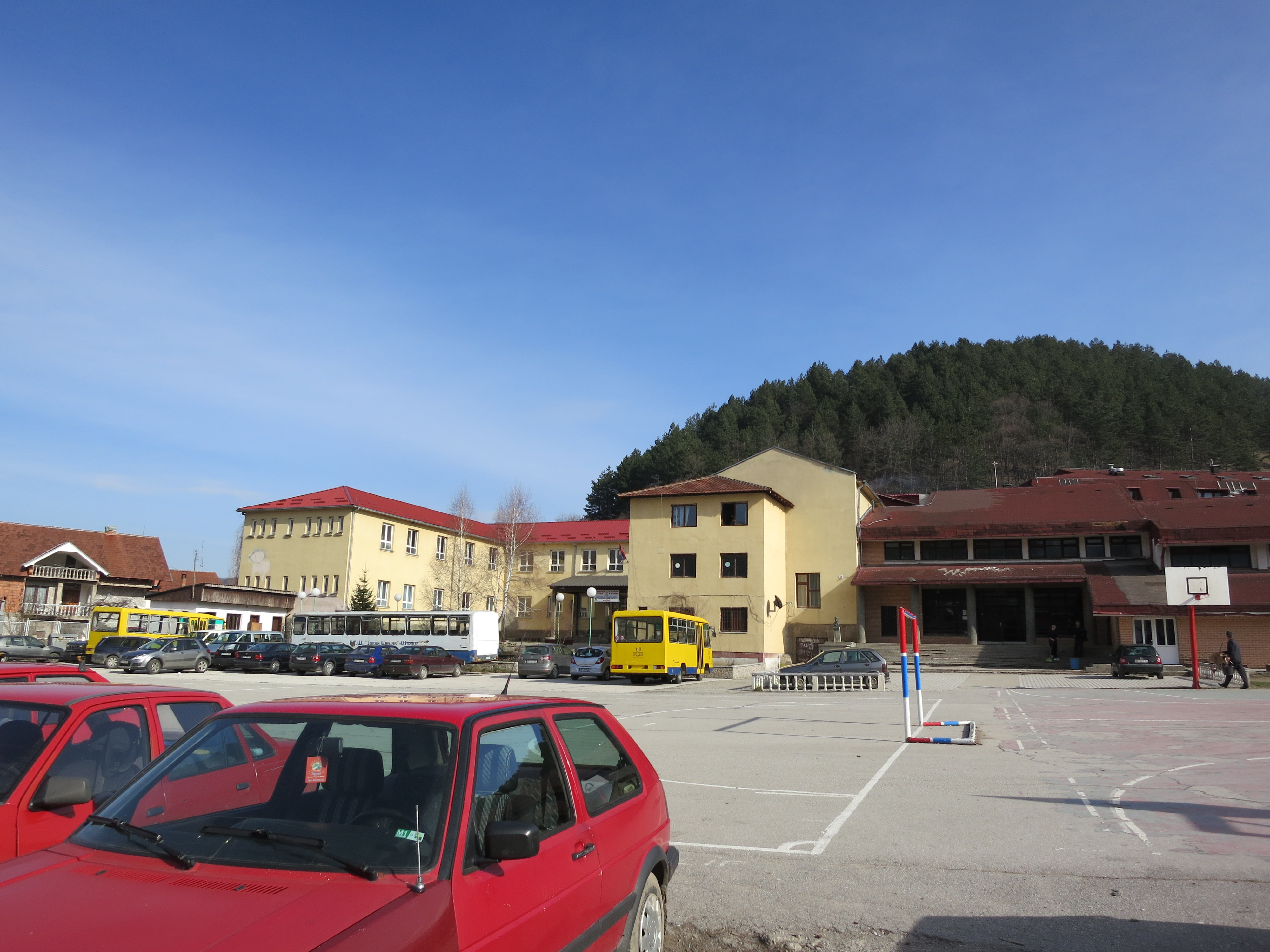 view of primary and high schools in Strpce